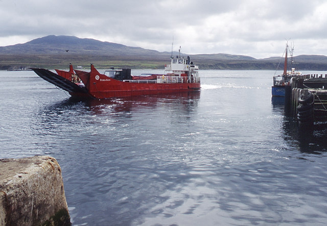 The ferry Sound of Gigha from Jura arriving at Port Askaig